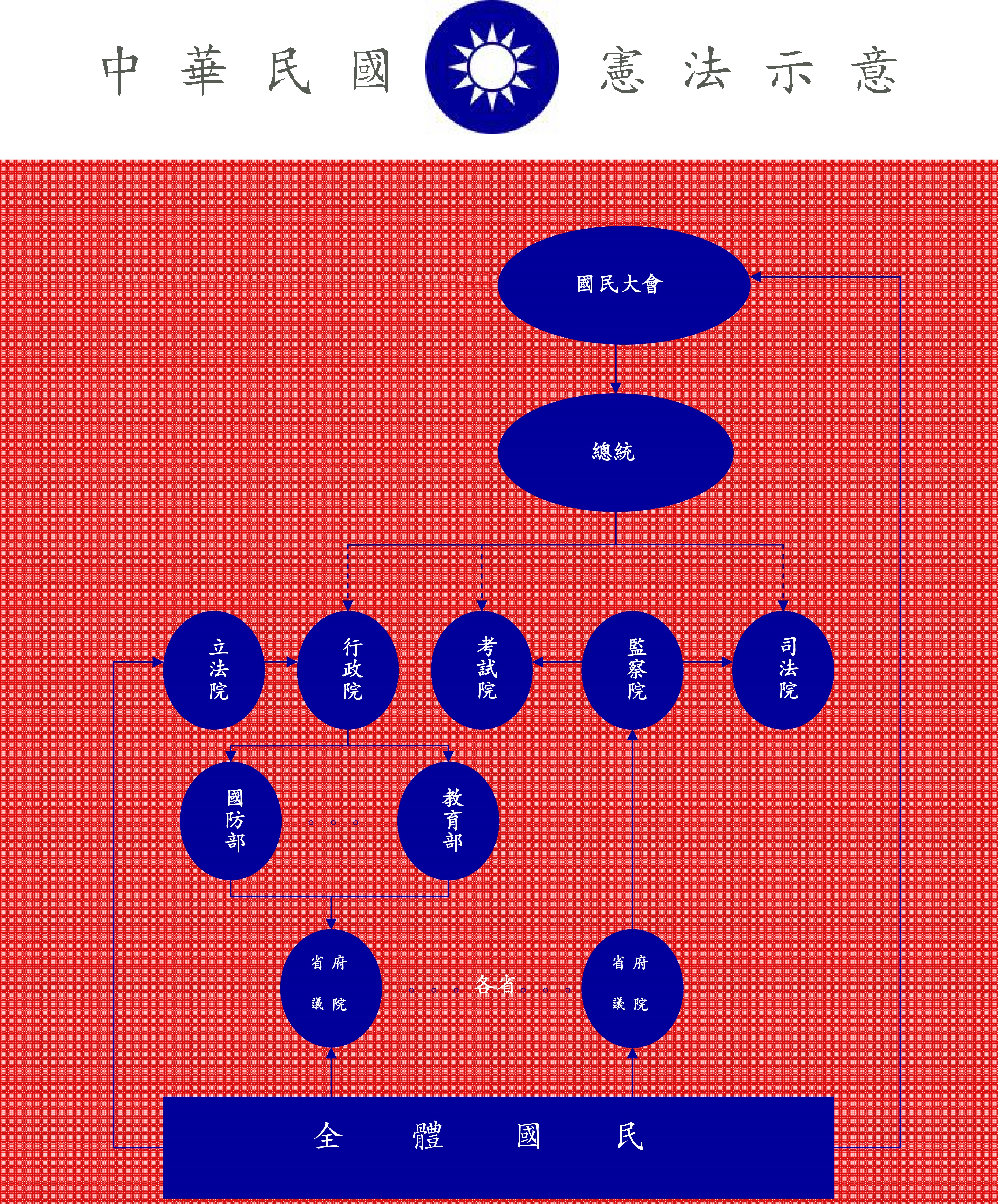 The structure of Constitution of R.O.China in 1946